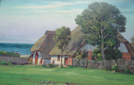 oil on canvas